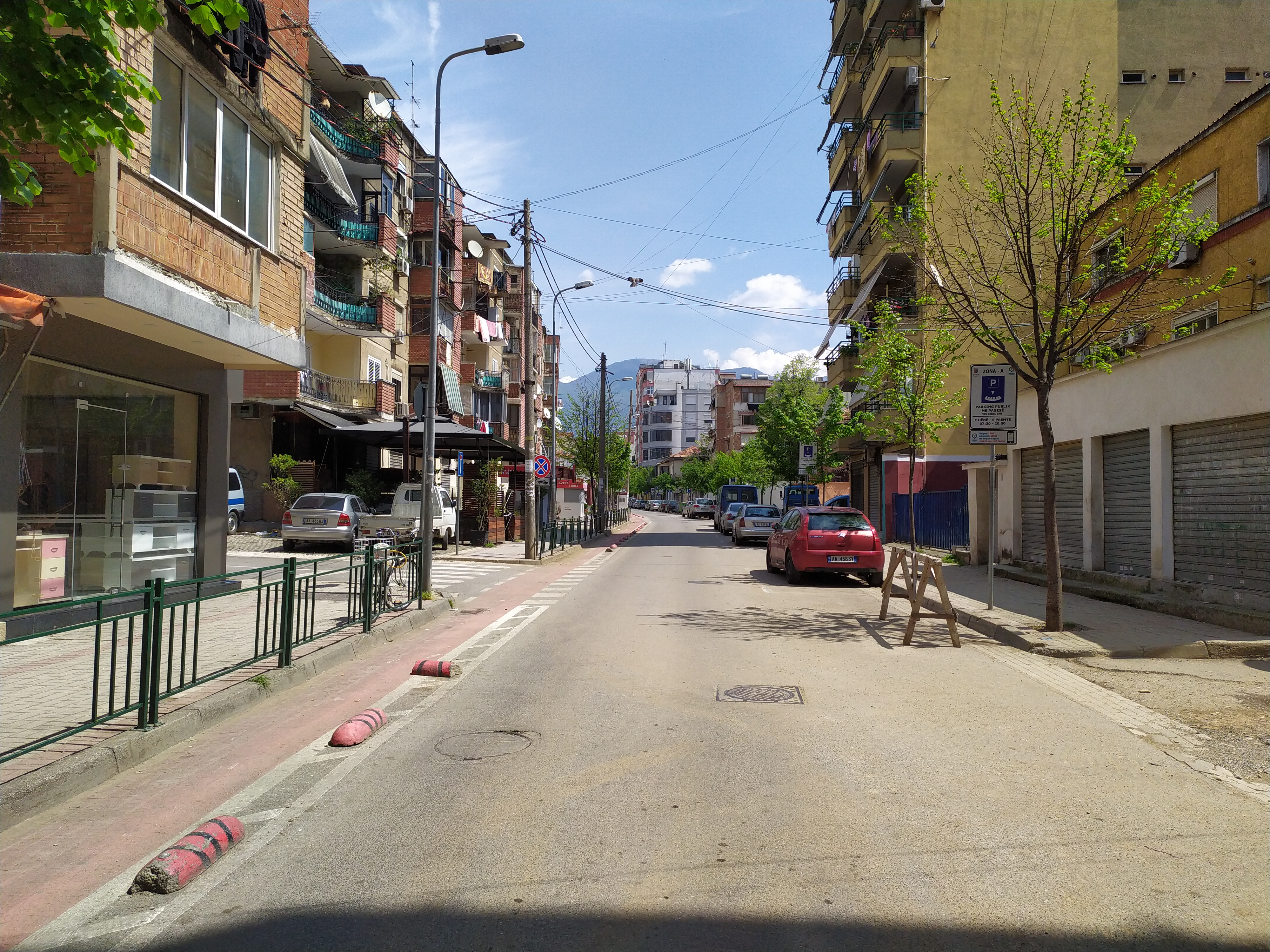 Qemal Stafa street, also known as the bicycle market, in Tirana during the COVID-19 pandemic